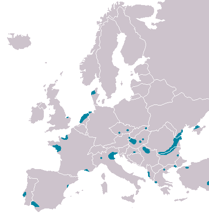 Breeding distribution in Europe (note: also occurs extensively in Asia and locally in northern Africa)